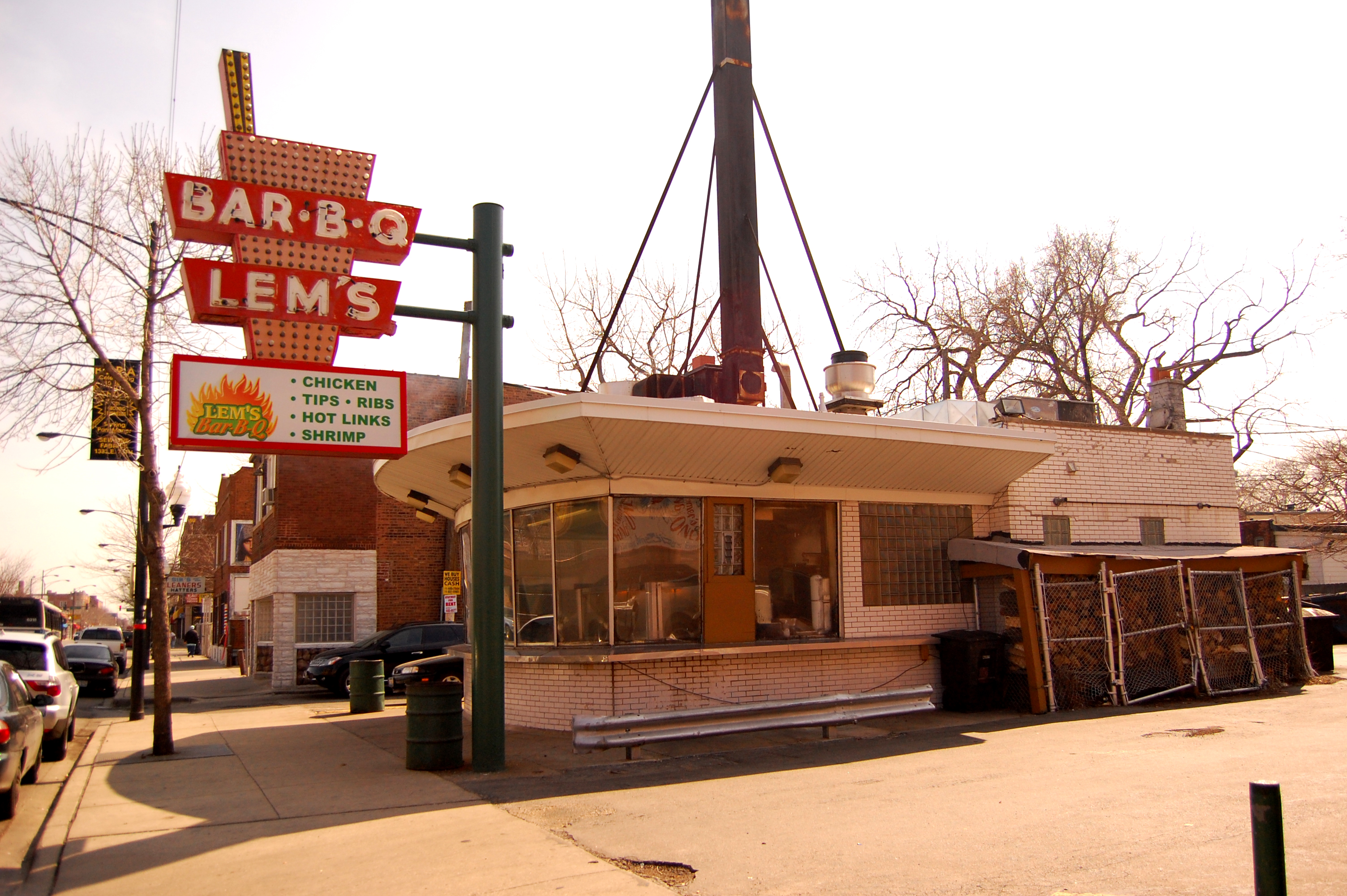 Lem's Bar-B-Q- Chicago, IL Photo by Amy C Evans, SFA oral historian March 2008